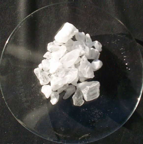 A sample of alum (KAl(SO4)2). Picture taken August 2005 by User:Walkerma.